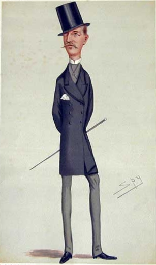 Caricature of HM George, King of Greece.